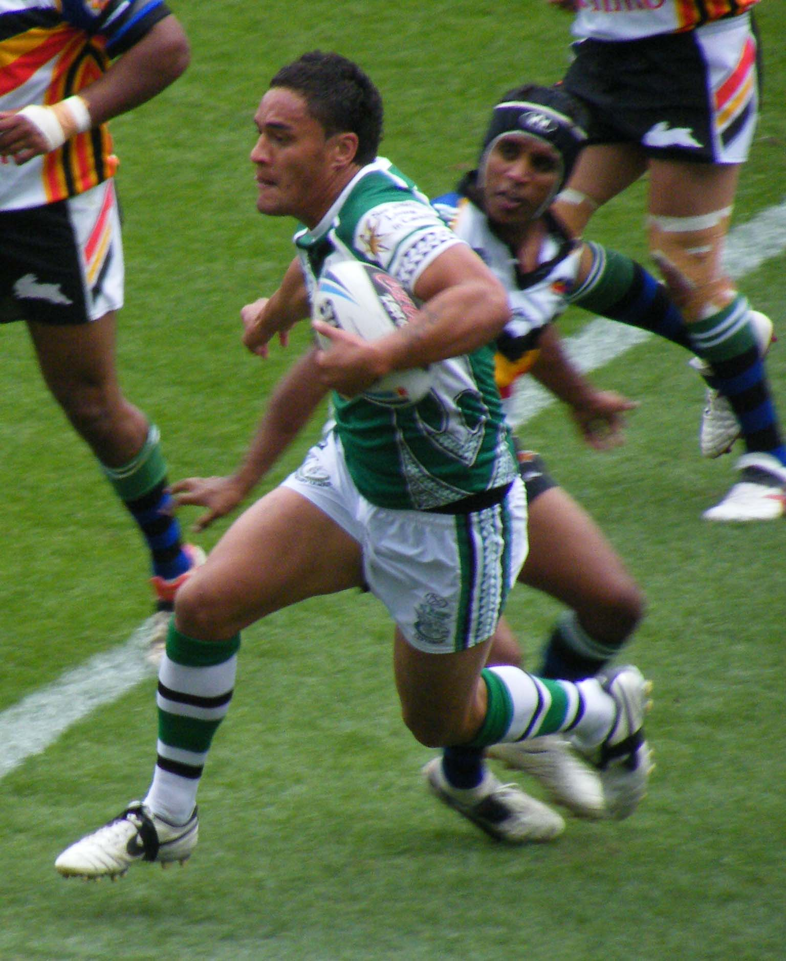 RMaori lock forward Lee Te Maari. RLWC 2008 Aboriginal dreamtime team versus New Zealand Maori.